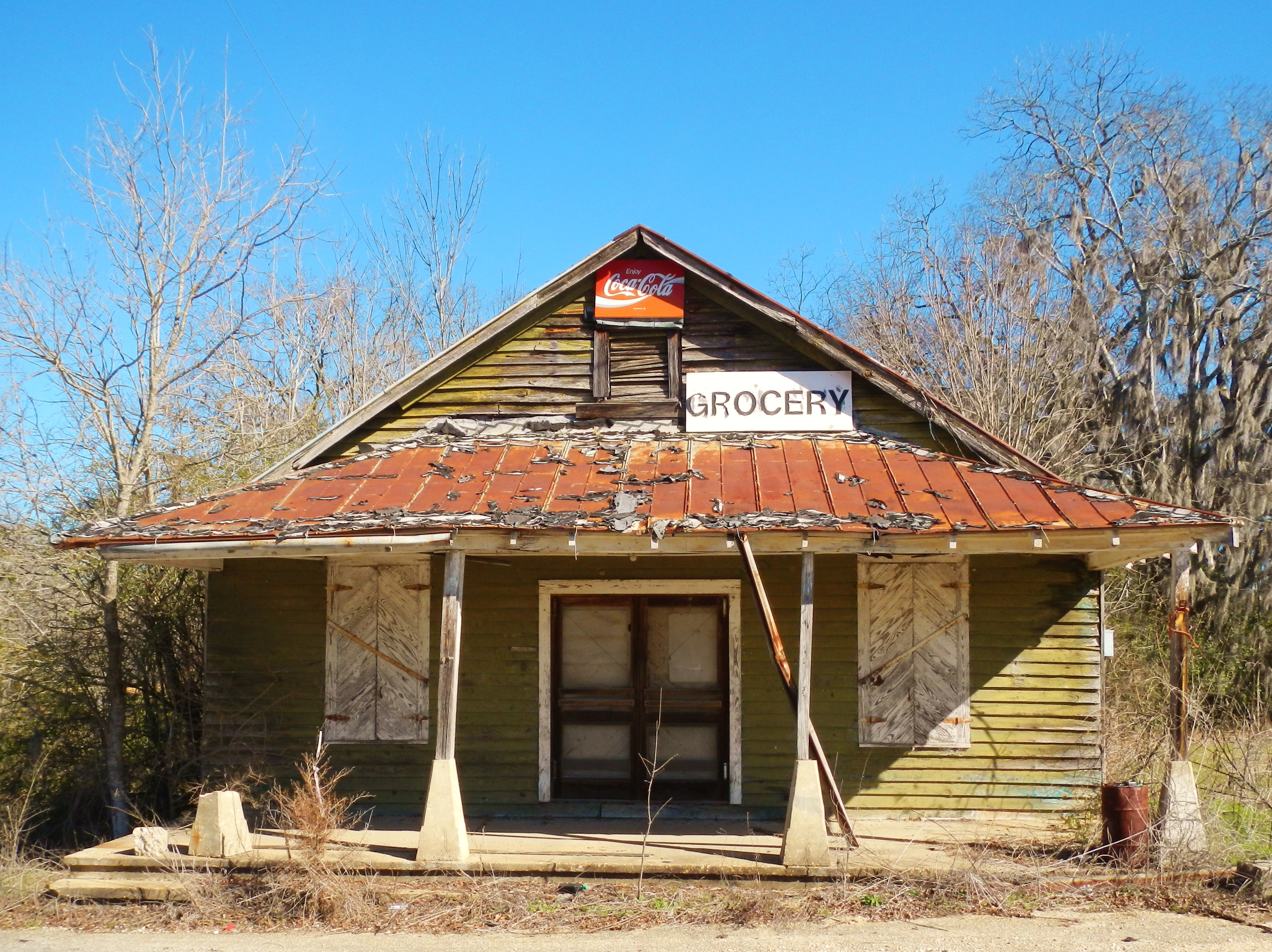 This is a photograph of the old grocery store in Letohatchee, Alabama